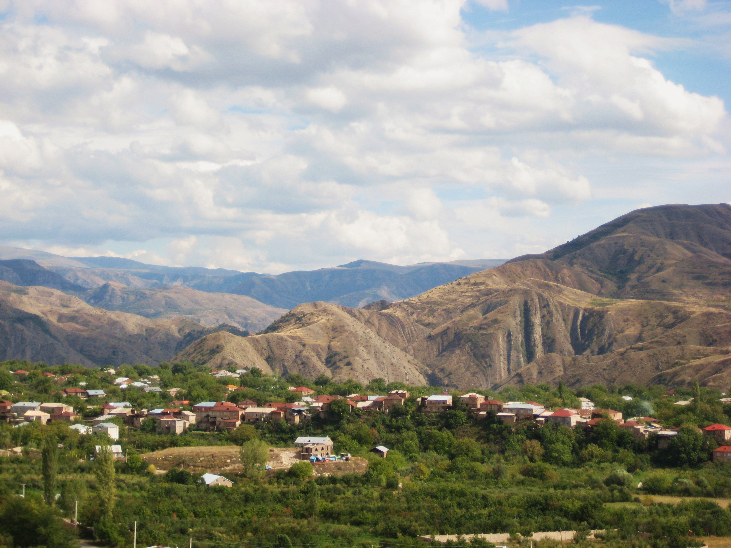 Garni Village